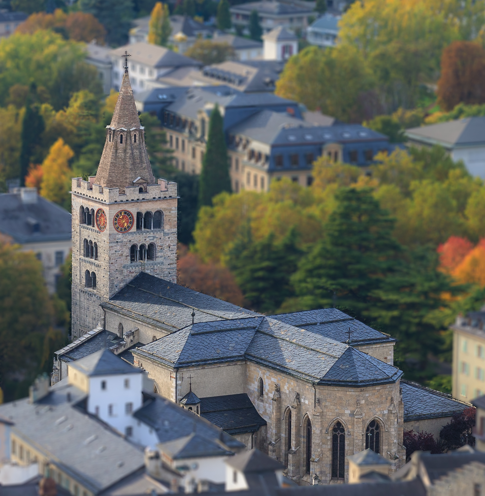 Cathedral Our Lady of Glarier, Sion, Canton of Vallis, Switzerland